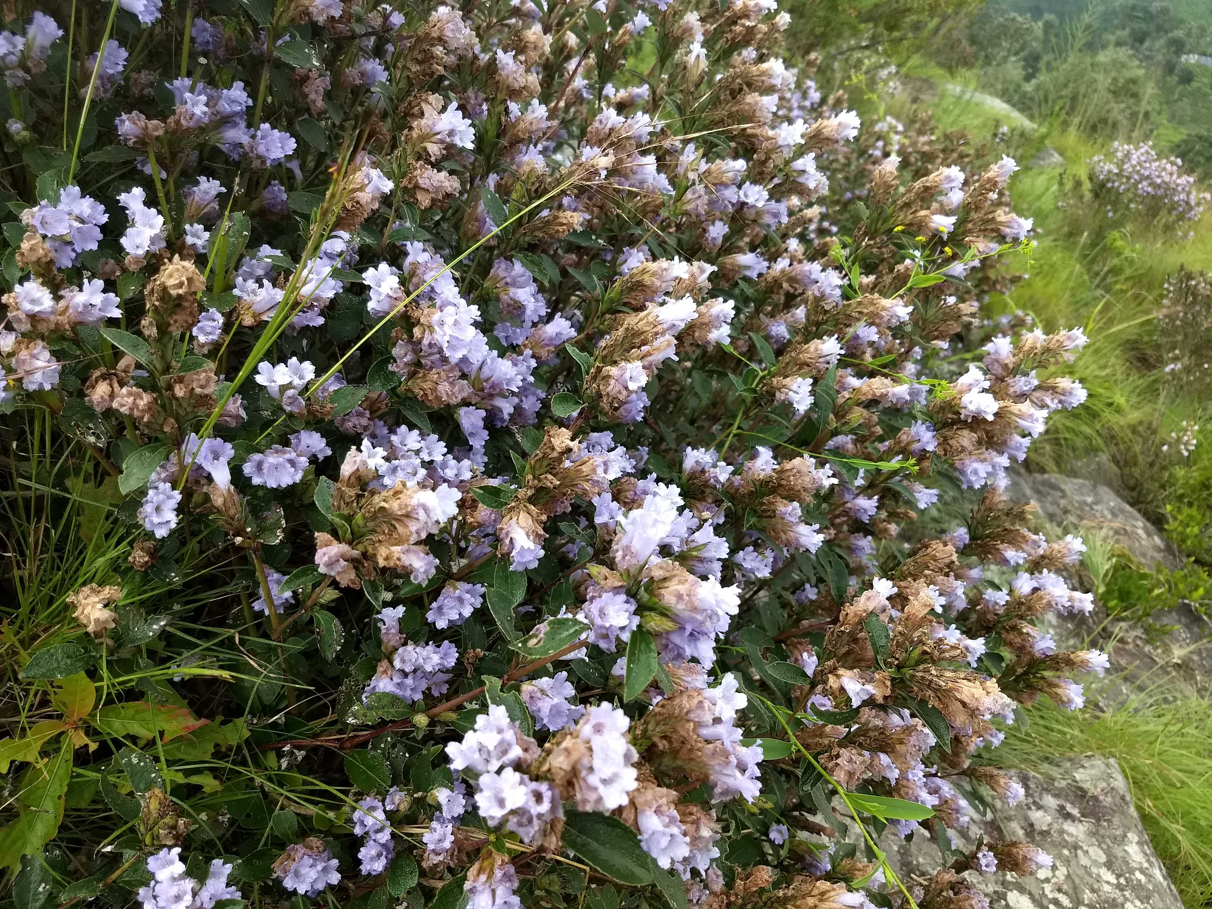 Strobilanthes kunthianus in Nilgiris